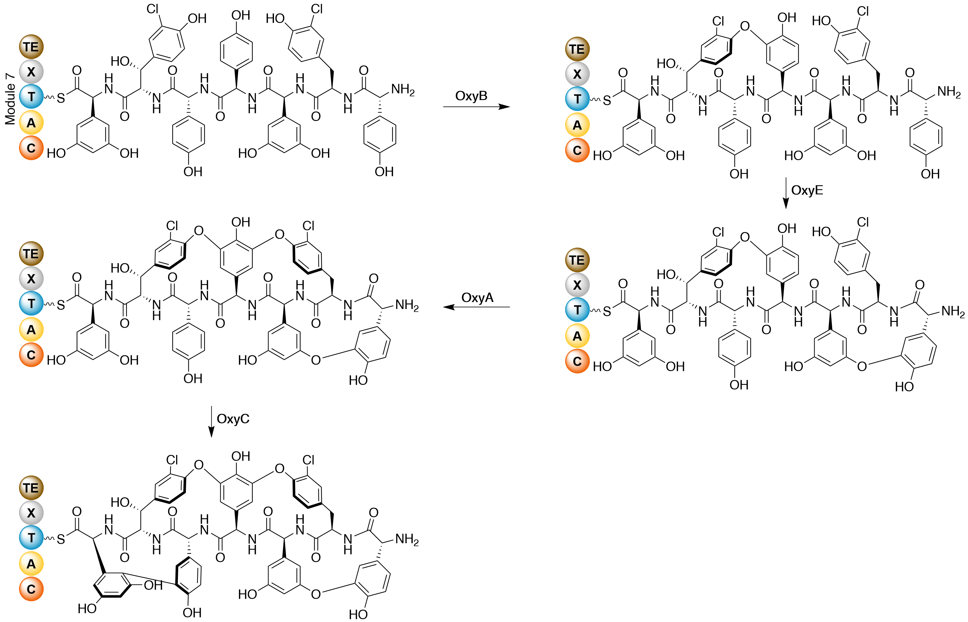 Stepwise cross-linking of the teicoplanin heptapeptide bound to the PCP of the final NRPS module, catalysed by cytochrome P450 oxidases OxyB, E, A and C.